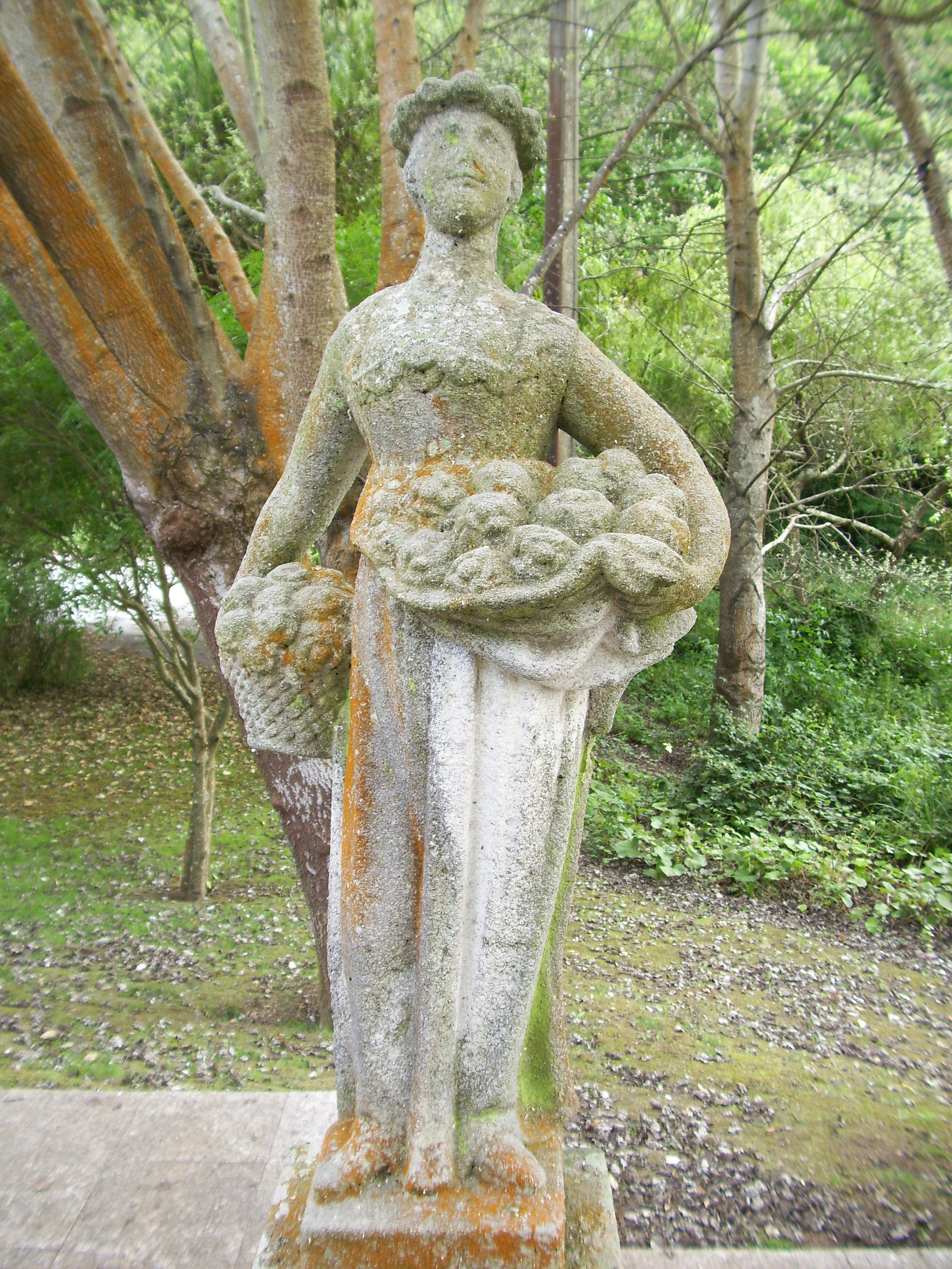 Allegory of spring at the pond of Lóngora manor (Liáns, Oleiros).